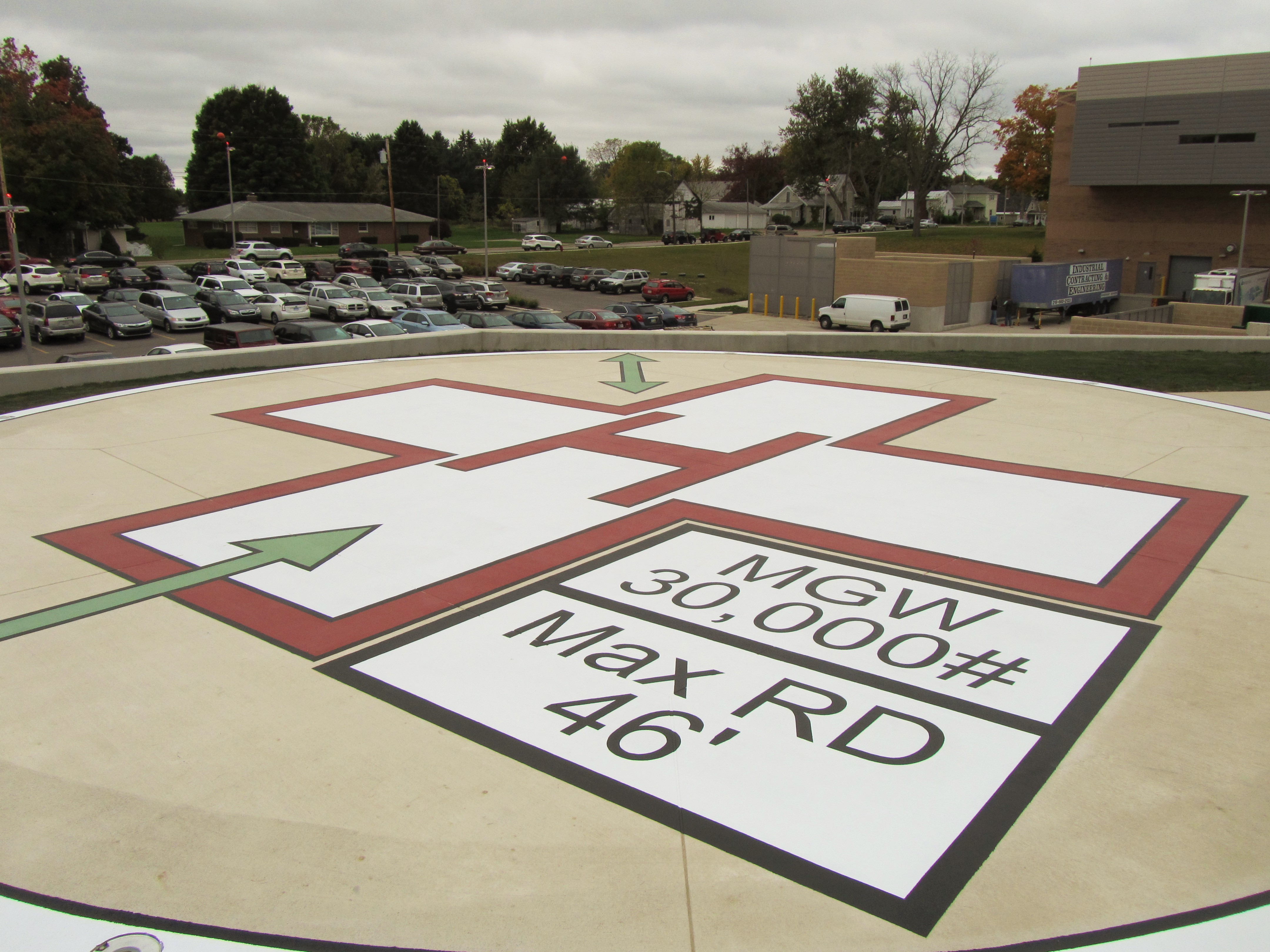 Properly marked ground based hospital heliport with heliport H, hospital cross, Max Gross Weight, Max Rotor Diameter and approach/departure arrows.